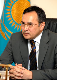 Akim of the South Kazakhstan Region A.I.Myrzakhmetov